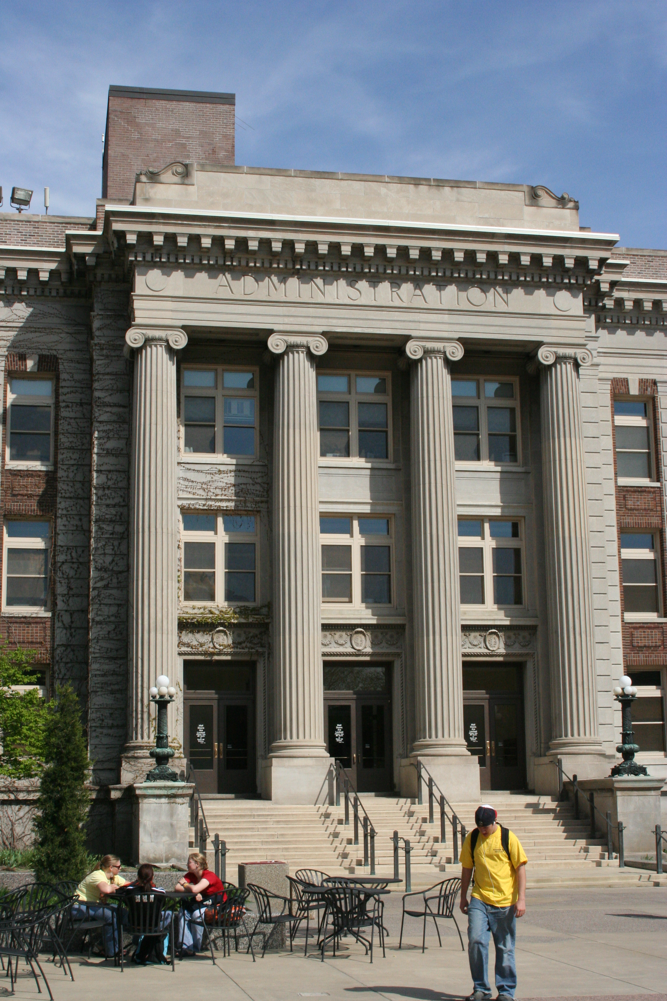 Morrill Hall, University of Minnesota Twin Cities East Bank